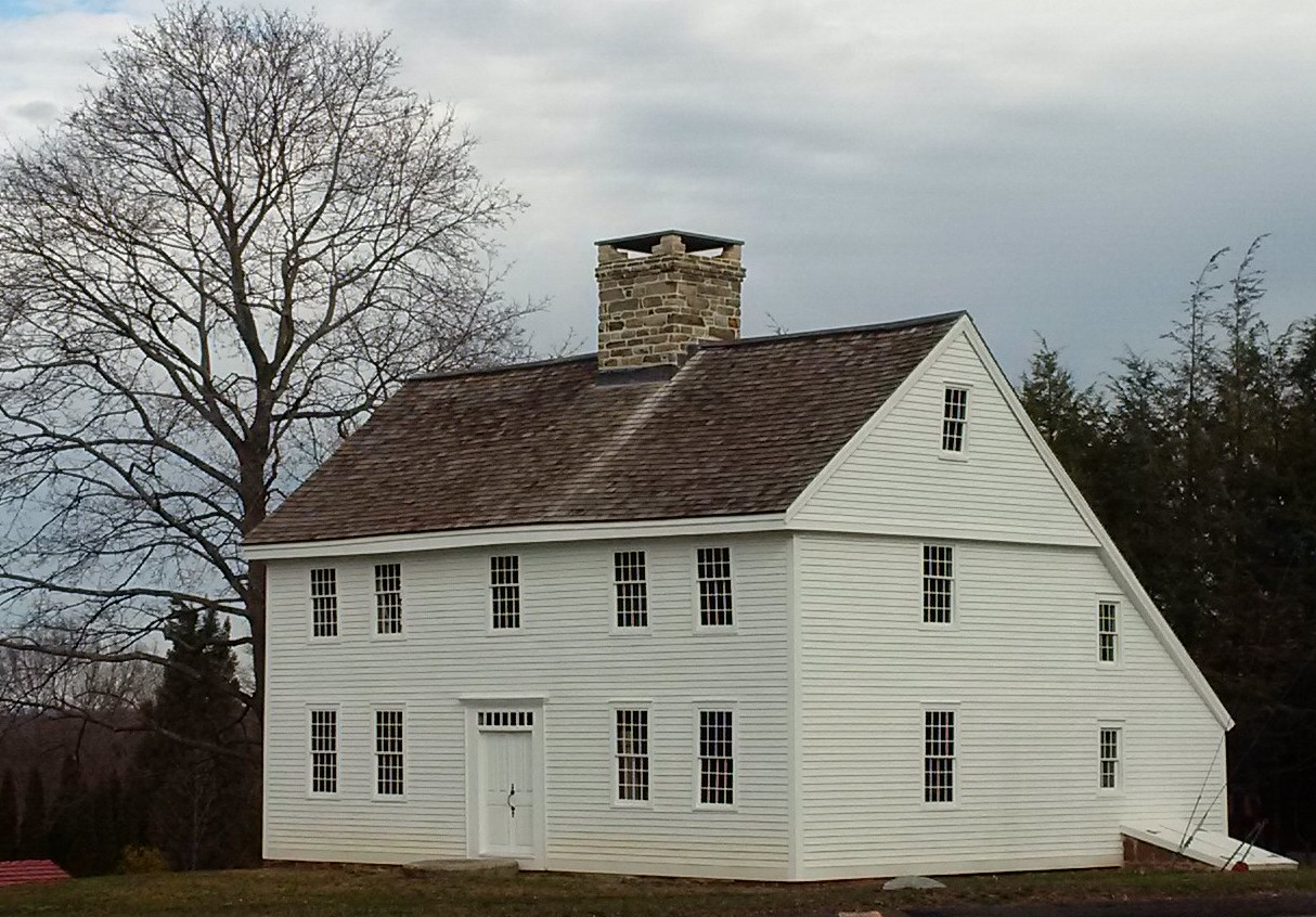 Nehemiah Royce House front Wallingford, CT spring 2016.